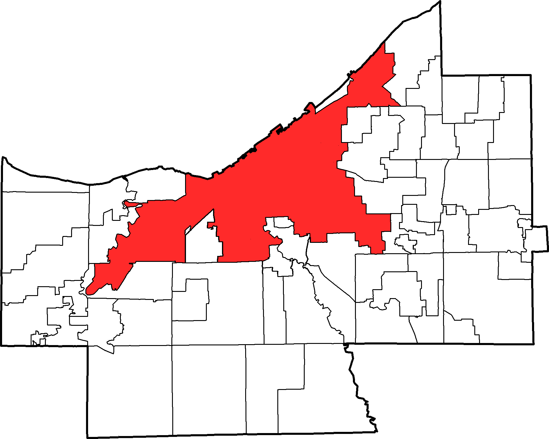 Cleveland This map shows the community's extent in Cuyahoga County, Ohio. Base map, :Image:Cuyahoga_County.png, was created by User:Clevelander. Highlights were made by User:DangApricot.